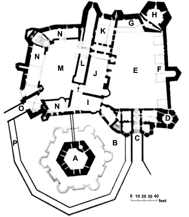 Diagram of Raglan Castle. Retouched and relabelled by hchc2009, 2011